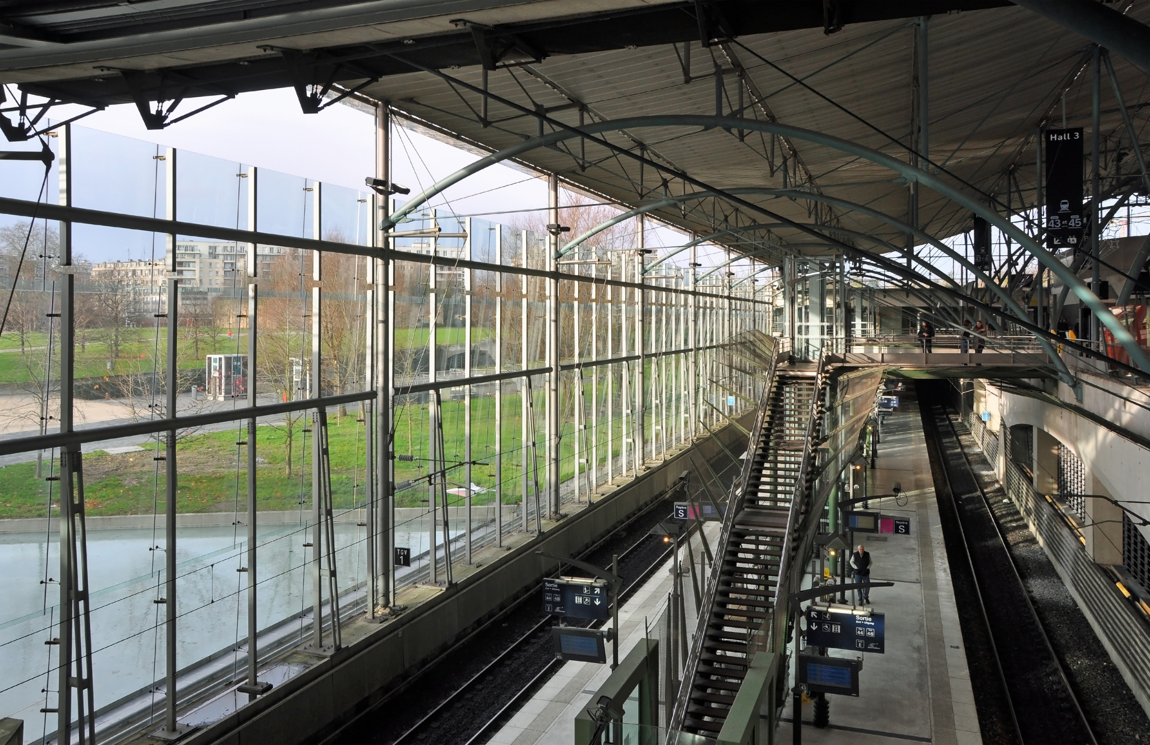 Lille (France): train station Lille-Europe